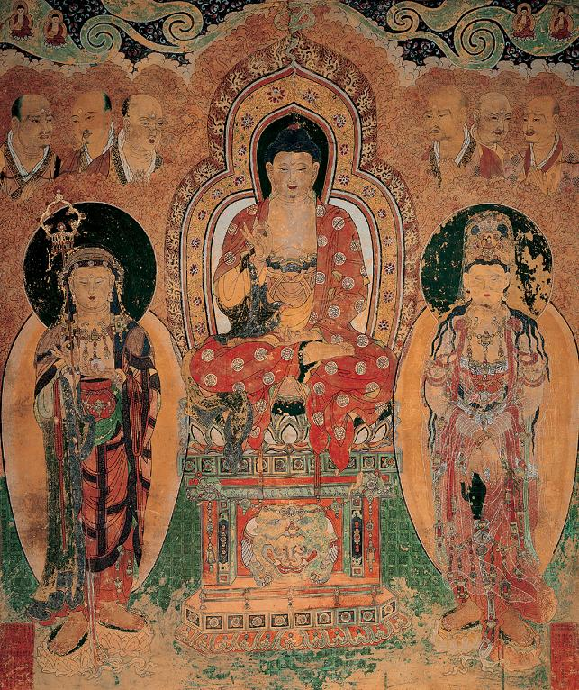 Amitabna buddha wall painting in Geungnakjeon Hall of Muwisa Temple, National Treasure of South Korea No. 301